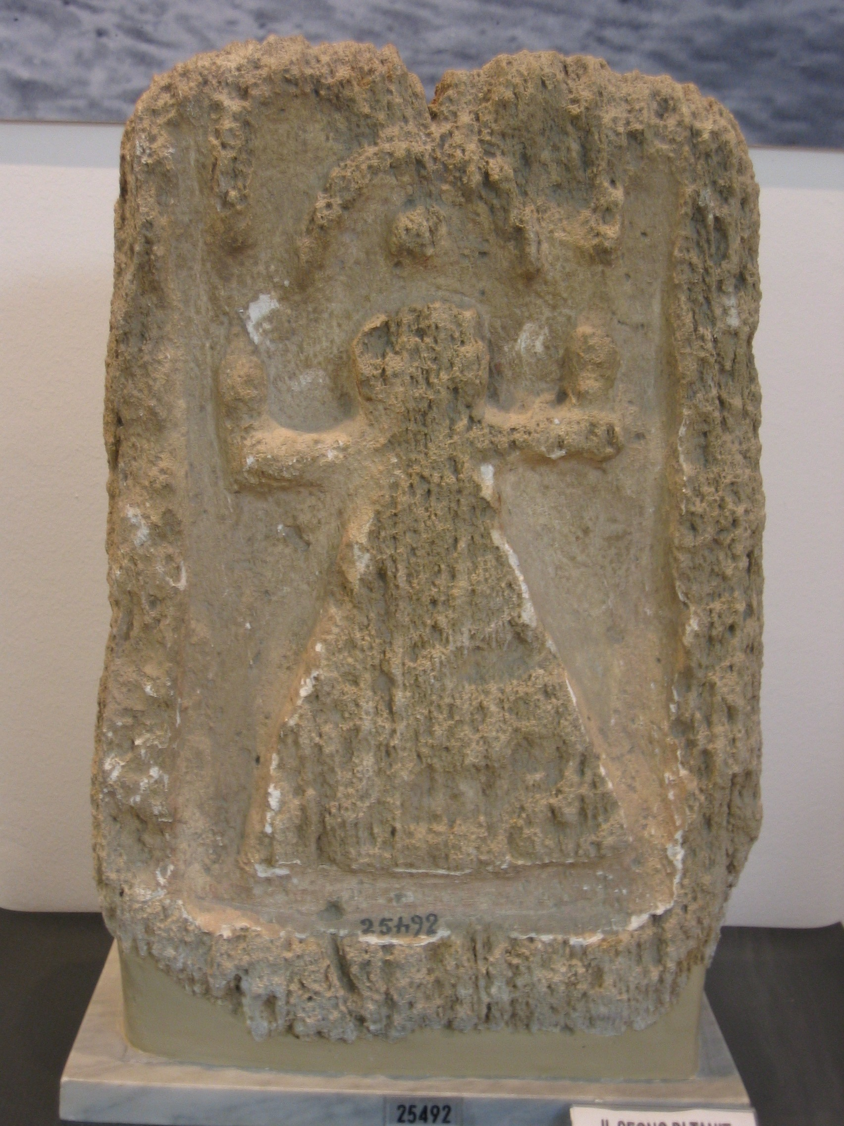 Stele from Nora's tophet, Nora Archaeological Museum (Italy)